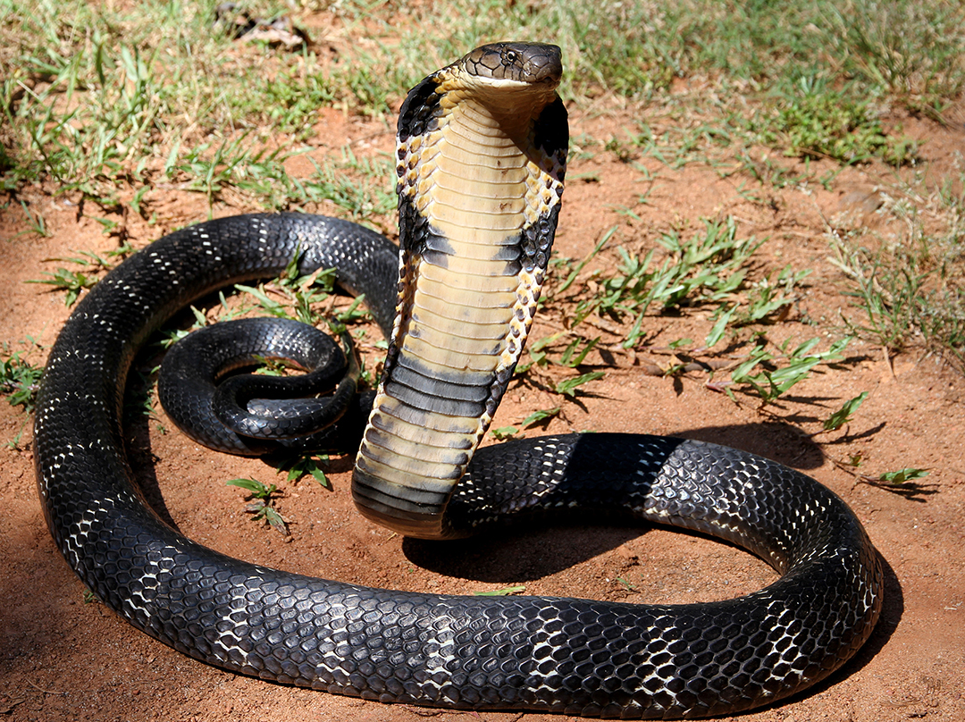 Photo by Dr. Anand Titus and Geeta N Pereira ([1])